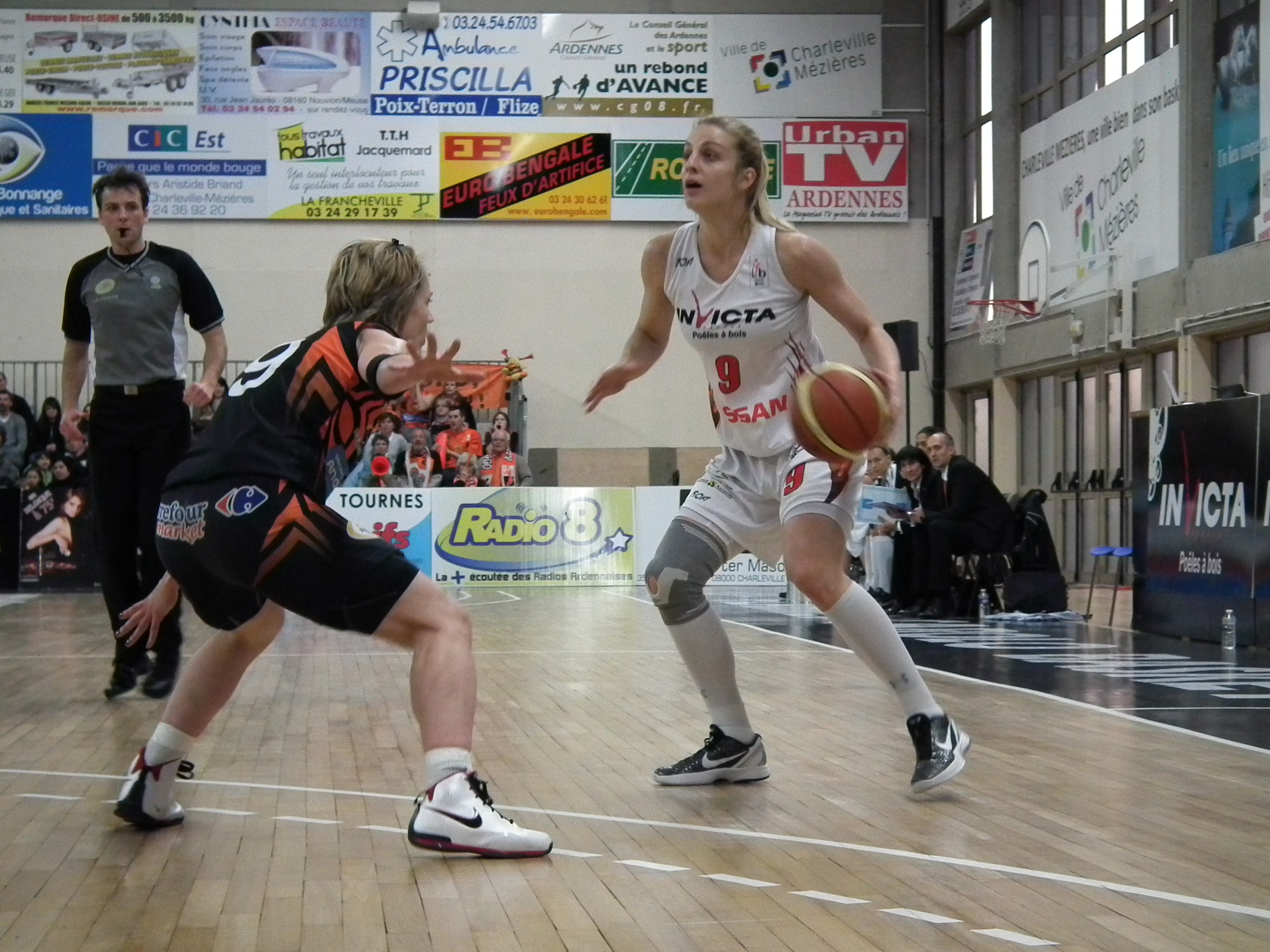 Ekaterina Dimitrova (white shirt), player of Flammes Carolo basket (French Ligue féminine), against Céline Dumerc, player of Bourges and French national team. Charleville-Mézières vs. Bourges, Ligue féminine's game, on April 7th 2012.